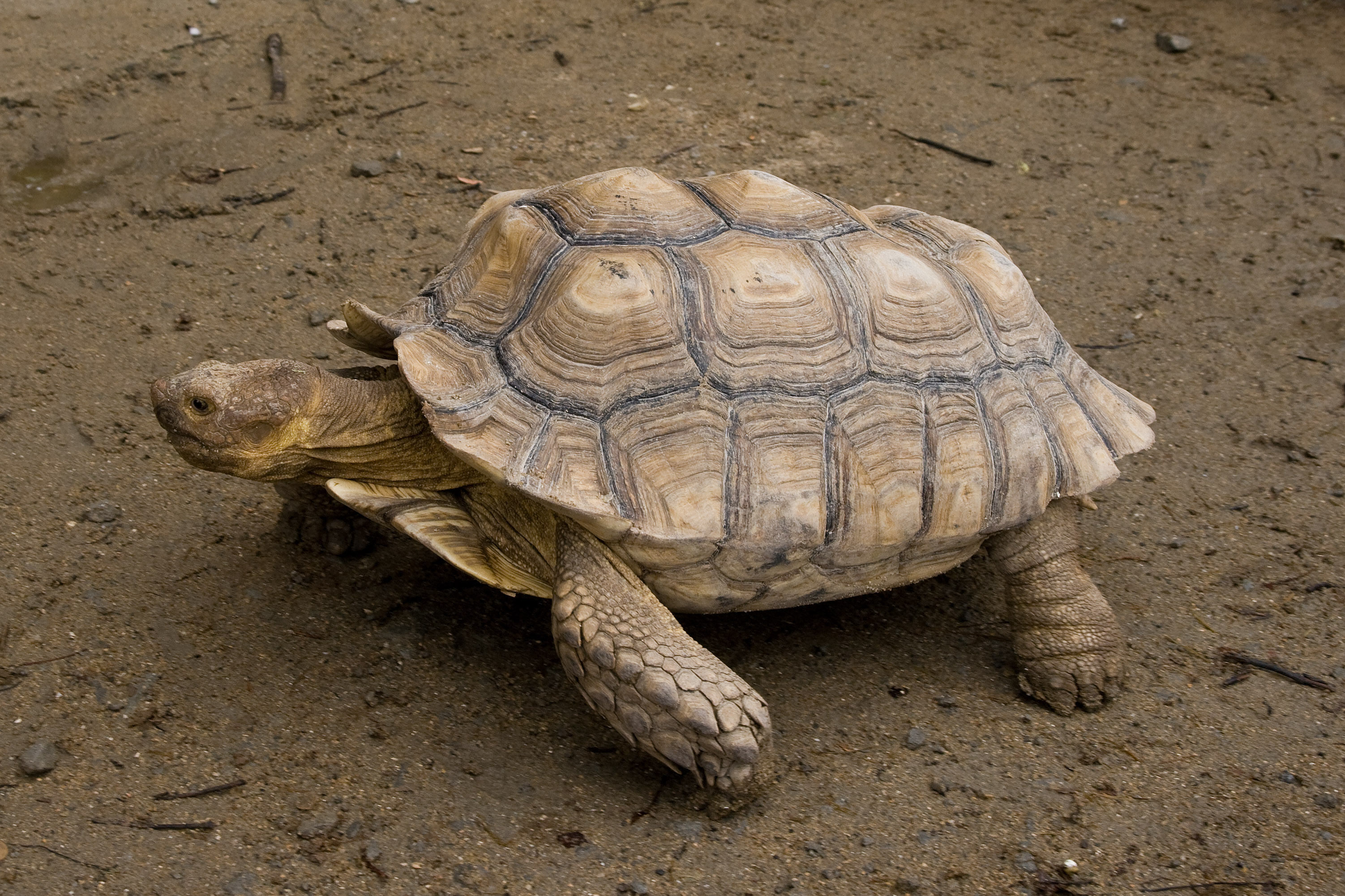 African Spurred Tortoise (Geochelone sulcata)